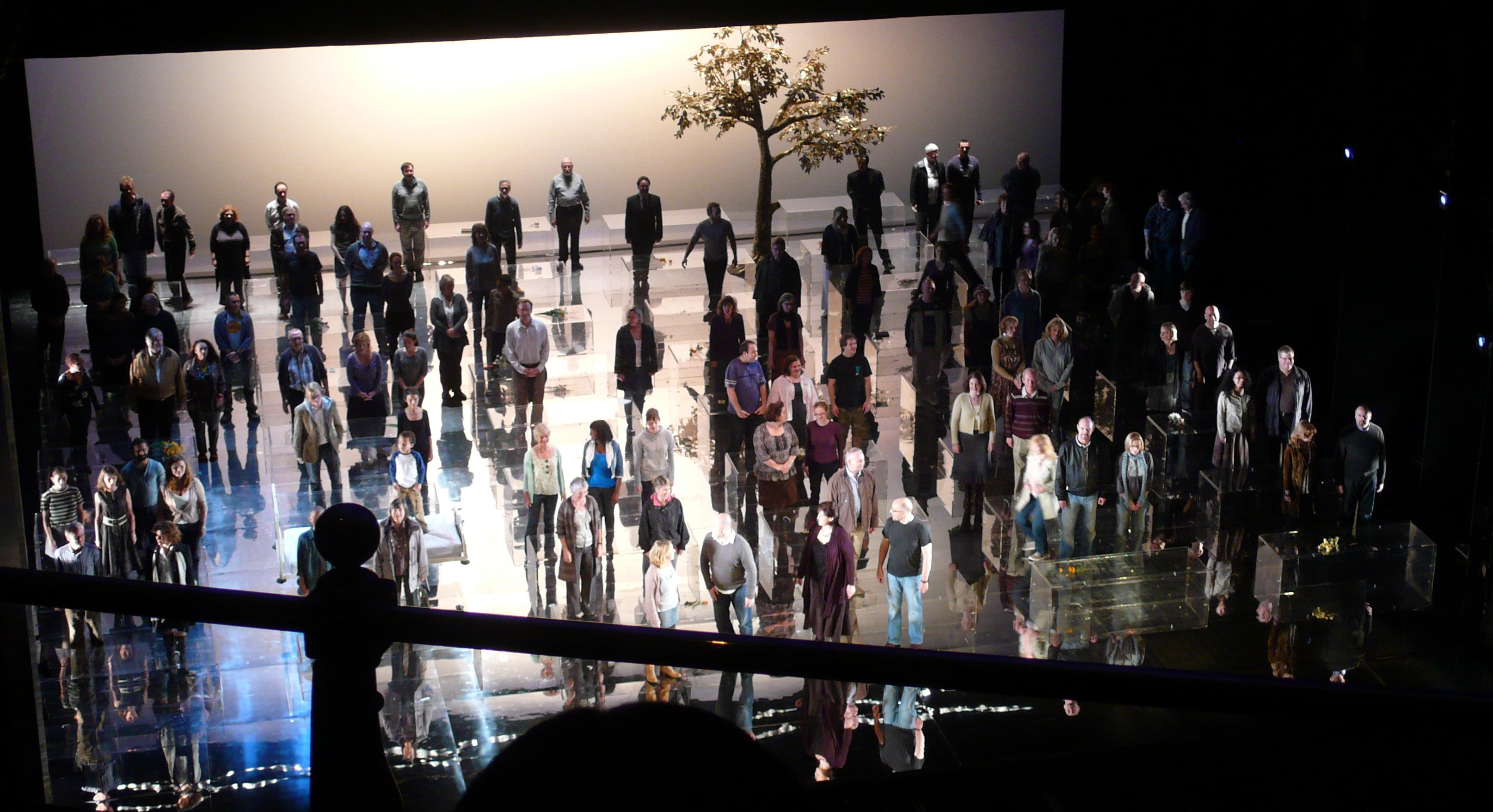 Deborah Warner's production of Handel's Messiah for the English National Opera in London